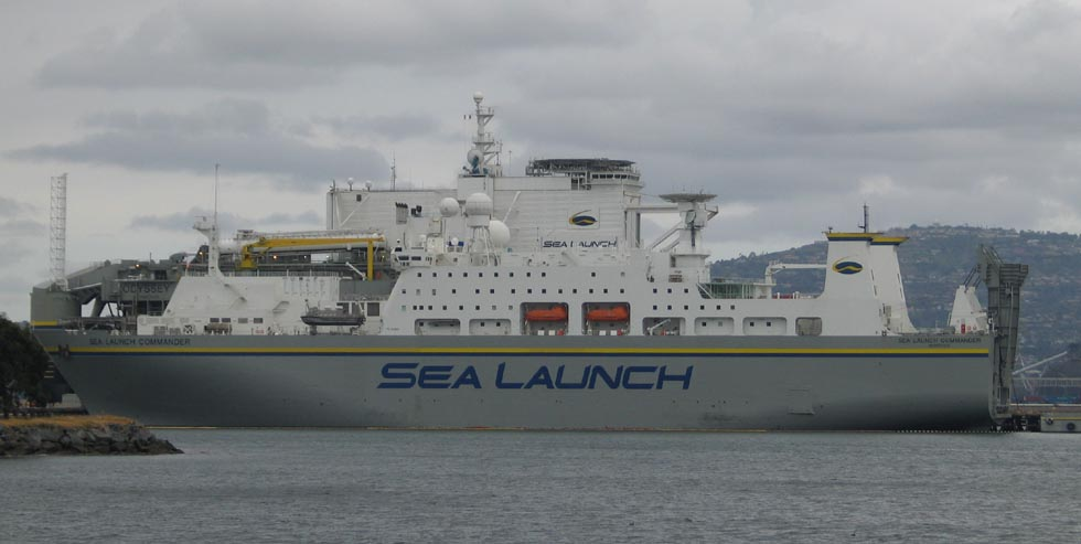 Description: Sea Launch command ship "Commander" in its home port at Long Beach, California (April 17, 2004)